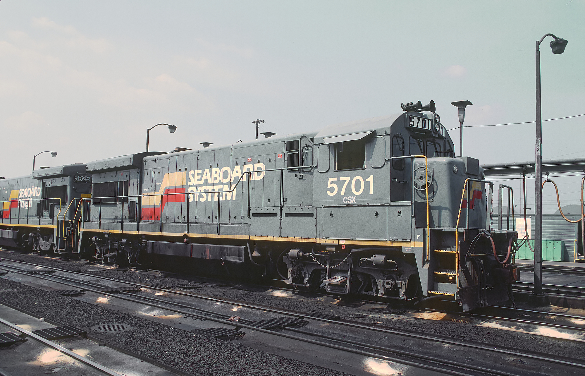 A Roger Puta photograph